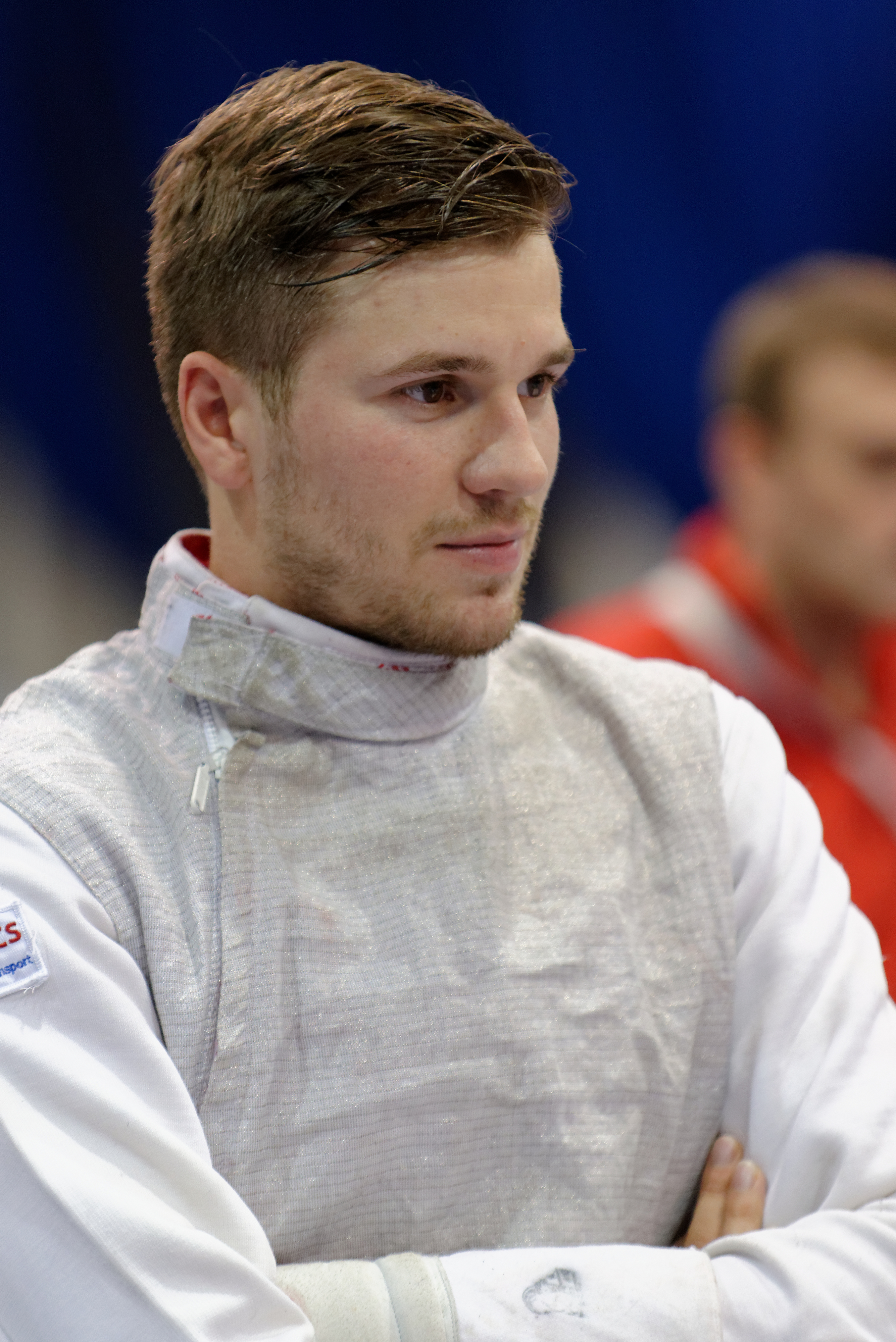 Poland's Michał Majewski at the men's team foil event of the 2013 World Fencing Championships 2013 at Syma Hall in Budapest, 12 August 2013.